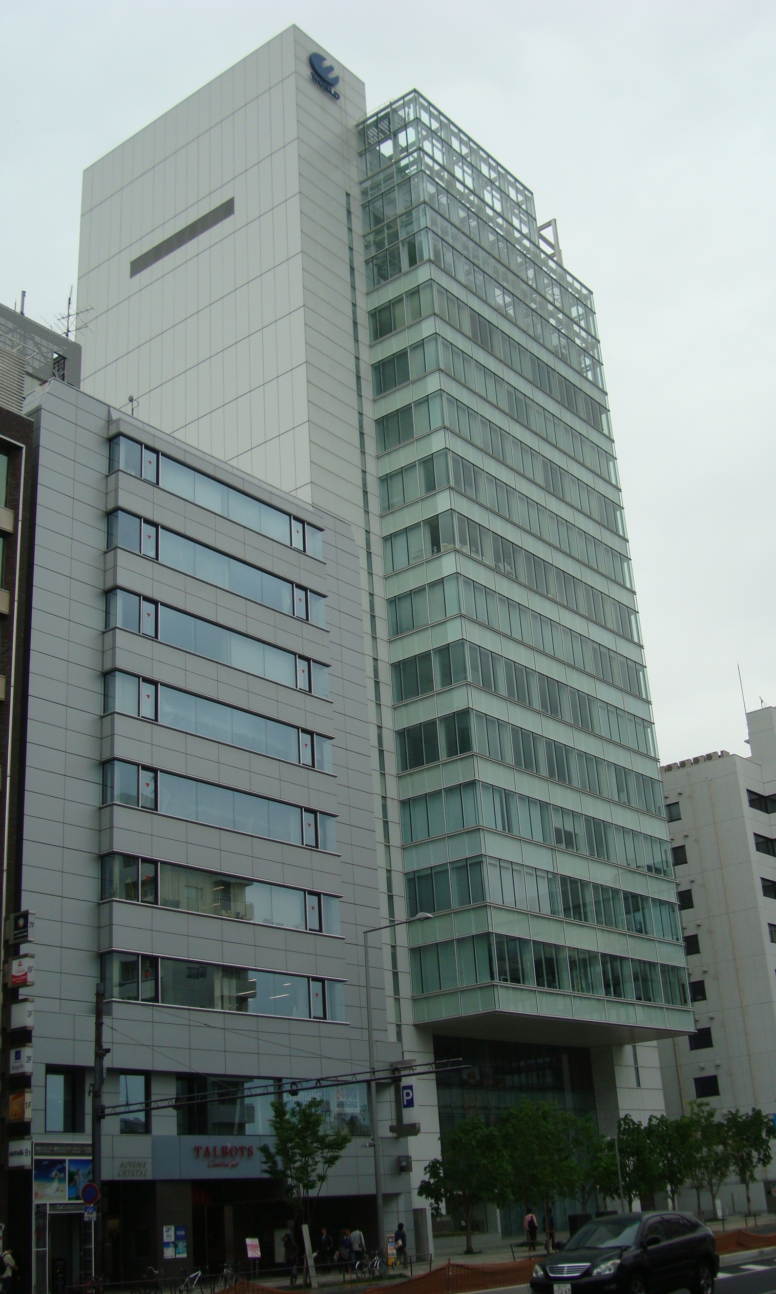 WORLD Kita-Aoyama building, Aoyama, Tokyo